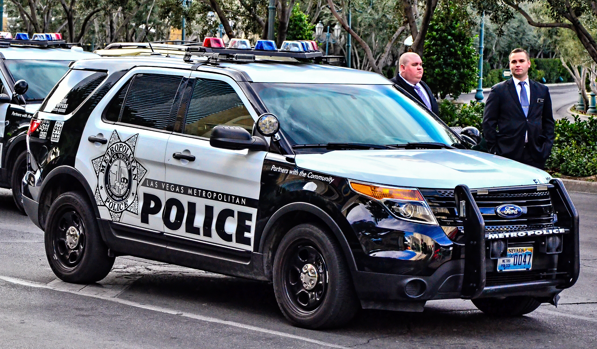 Nascar Victory Lap 2015 TDelCoro December 3, 2015